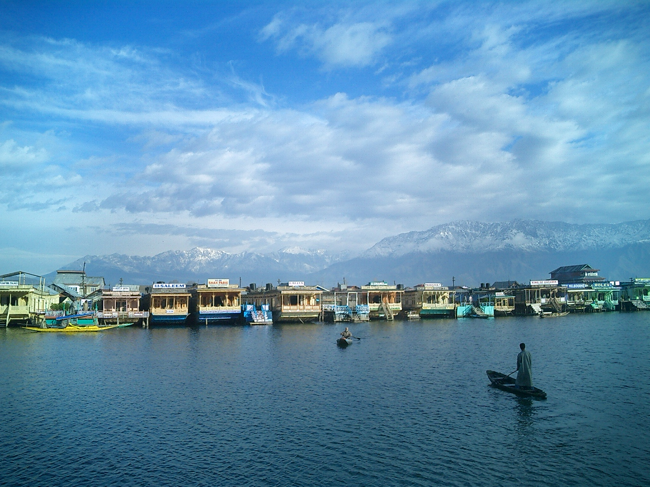 and i go back after an year. and after a view like this i shall go back again and again. this time was greeted by the snow capped mountain in the backdrop when i woke up early in the morning. and i was left breathless. The lake in Srinagar, Kashmir is surrounded by the mighty himalayas on all sides. Kashmir is one of the most beautiful valley's in the world, today sadly is the hotbed of terrorism.